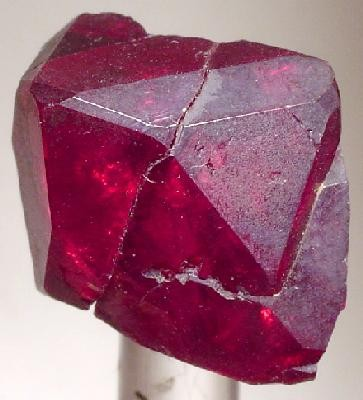 Cuprite Locality: Tsumeb Mine (Tsumcorp Mine), Tsumeb, Otjikoto (Oshikoto) Region, Namibia (Locality at ) A sharp, SUPER GEMMY, deep cherry-red cuprite crystal from Tsumeb. NOT OFTEN, does a Tsumeb cuprite of this QUALITY come on any market, even though the piece has one repair. This piece is NOT backlit. It really is that gemmy. Ed Ruggiero bought this beauty from Miriam and Julius Zweibel of Mineral Kingdom in the heyday of Tsumeb in September, 1977. 2.3 x 2.1 x 1.2 cm